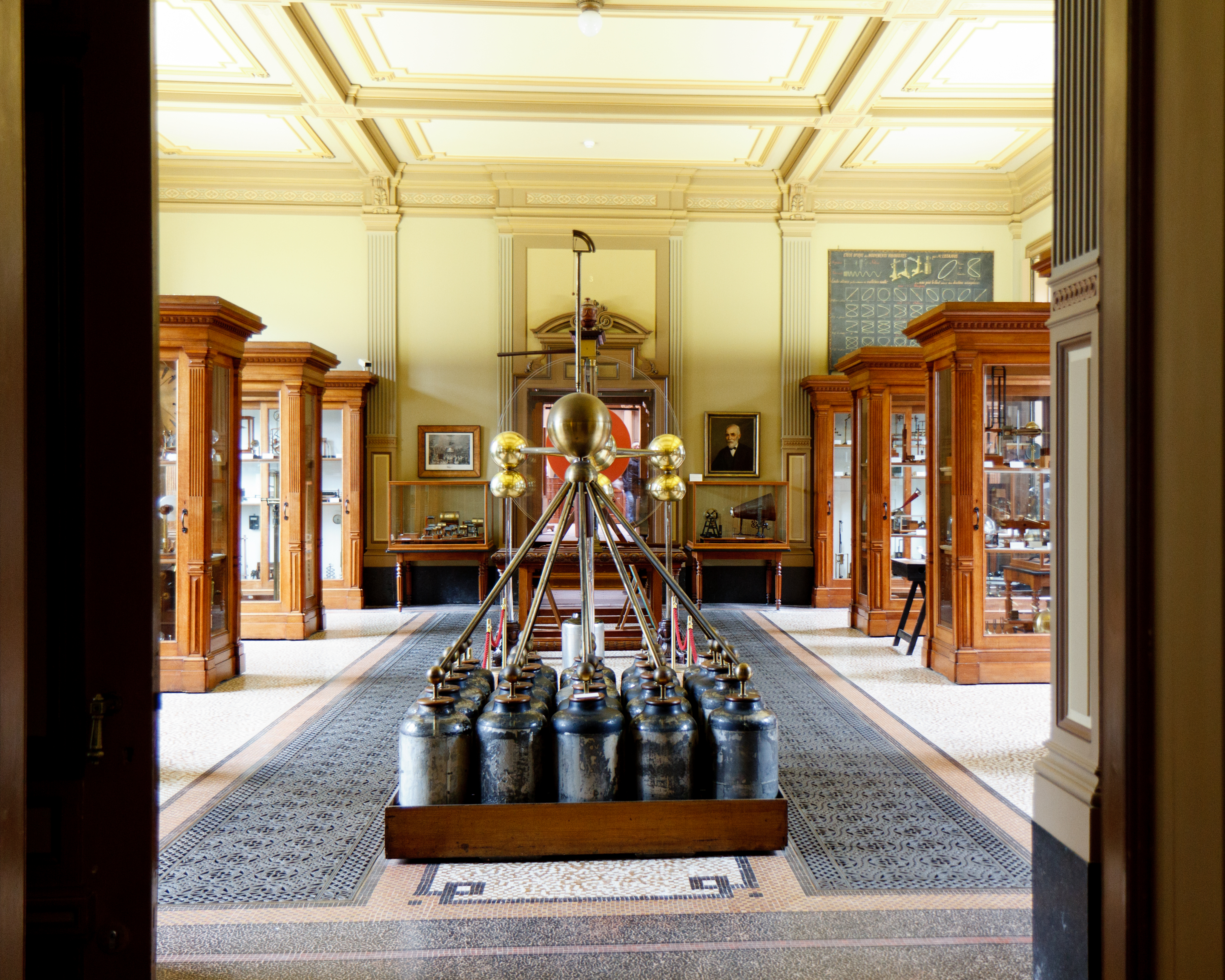 Teylers Challenge, visit to the museum on 28 April, 2012